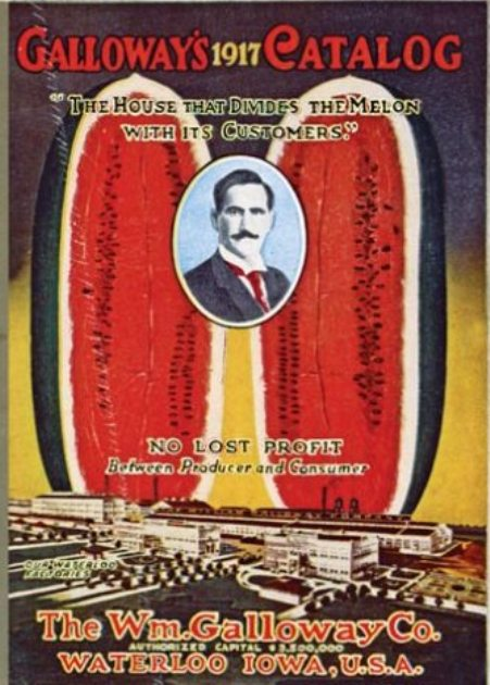 The William Galloway Co. was a farm implement manufacturer and engine builder in Waterloo, Io. The 1917 catalog covered 100 pages.